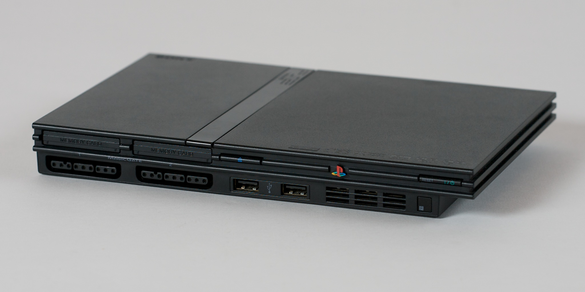 PlayStation 2 slim front view. (Model No. SCPH-70004)